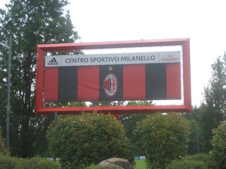 Milanello, AC Milan sporting center.